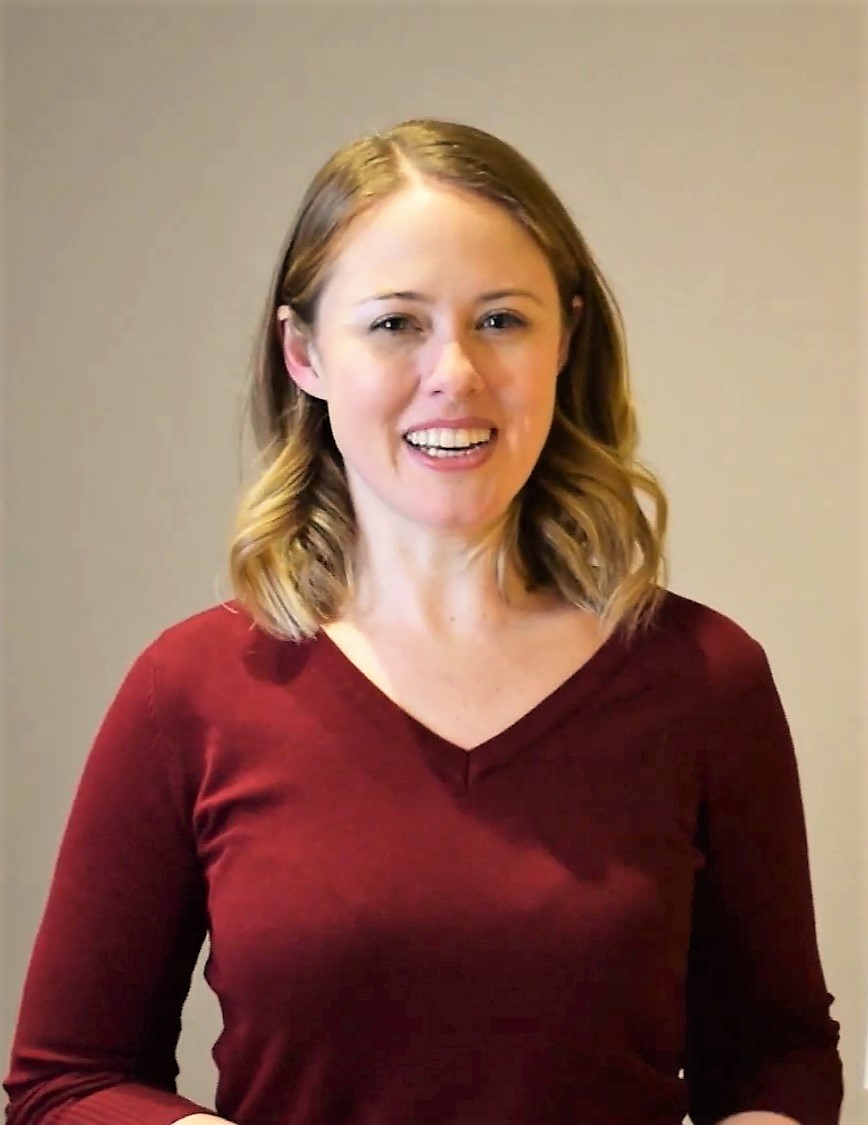 Jessica of How to ADHD - #ADHDSpeaks ADHDSpeaks helps us to elevate the voices and experiences of people from ADHD communities. We asked attendees of our 2019 Conference and Live show what their #ADHDspeaks message was. "Pills don't teach skills" Check out Jessica's channel! Raise awareness by sharing this video. We would like to hear from you! Go to for more information. Make a donation at